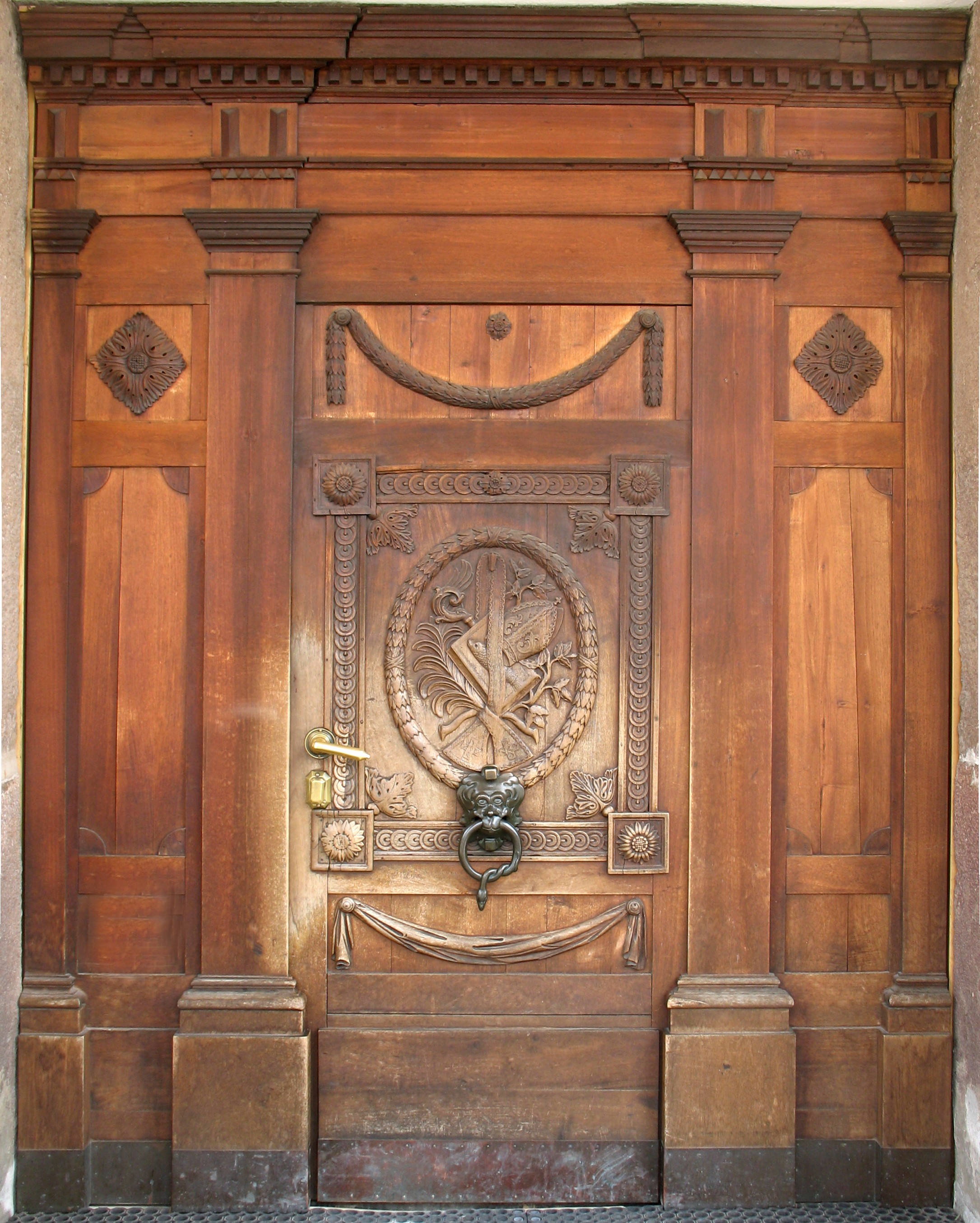 Portal with the attributes of Saint Ulrich of the parish church of St. Ulrich in Gröden carved in wood by Jakob Sotriffer around 1828